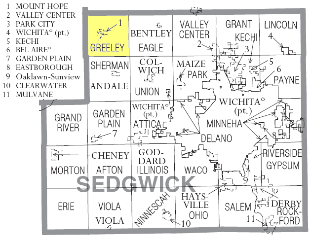 Map of Sedgwick County, Kansas highlighting Greeley Township